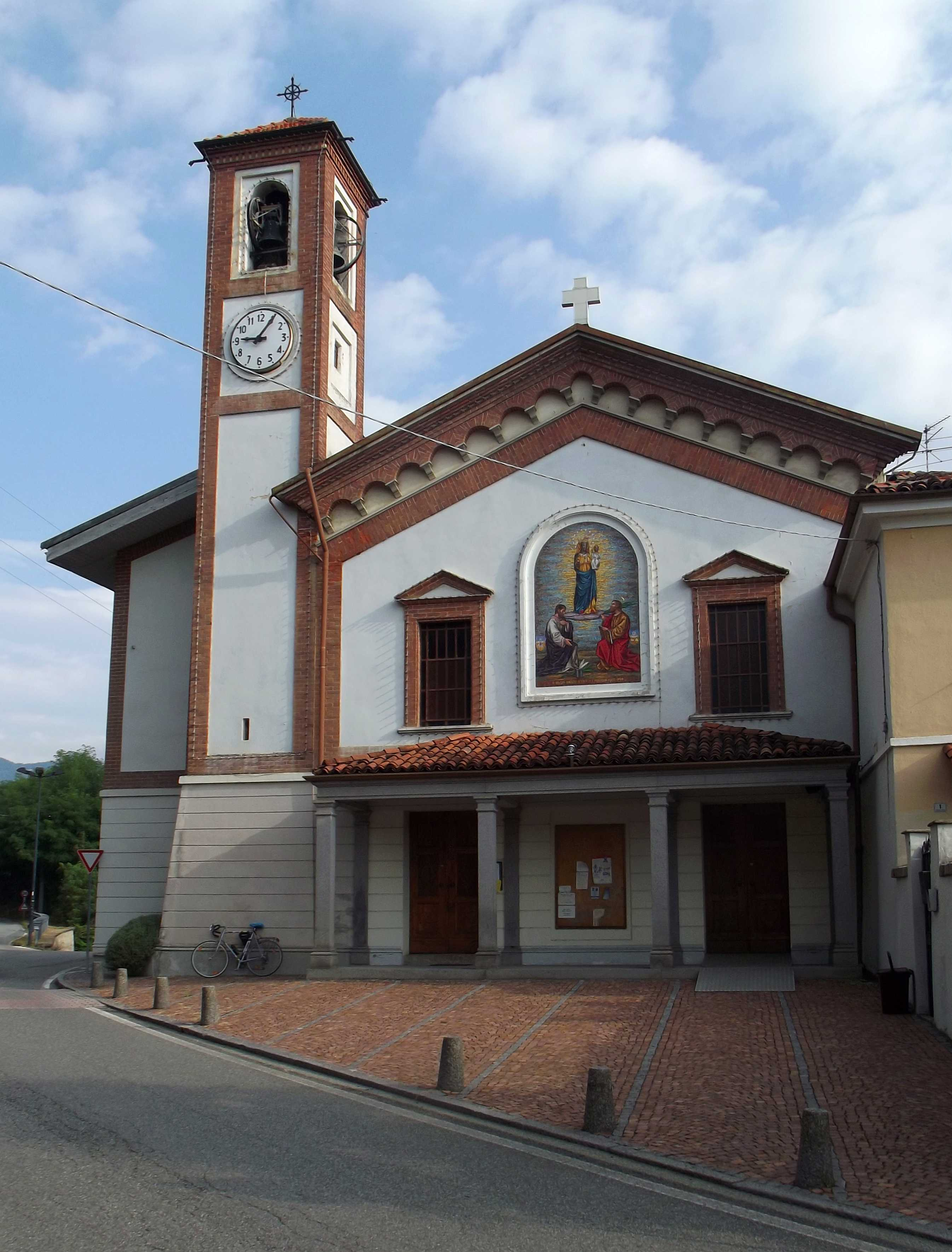 Crosa (BI, Italy): parish church